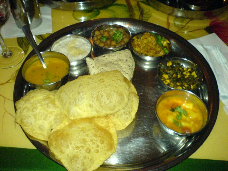 Plate with thali meal. Clockwise from left, a heap of puffed-up puri (bread) with a paapad (poppadom) behind it, a cup of brown daal, a cup of white kheer (dessert), a cup of chhole (chick pea dish), a cup of alu gobi (cauliflower and potato), a cup of paalak (spinach and corn), and a cup of alu-tamatar (tomato and potato soup).